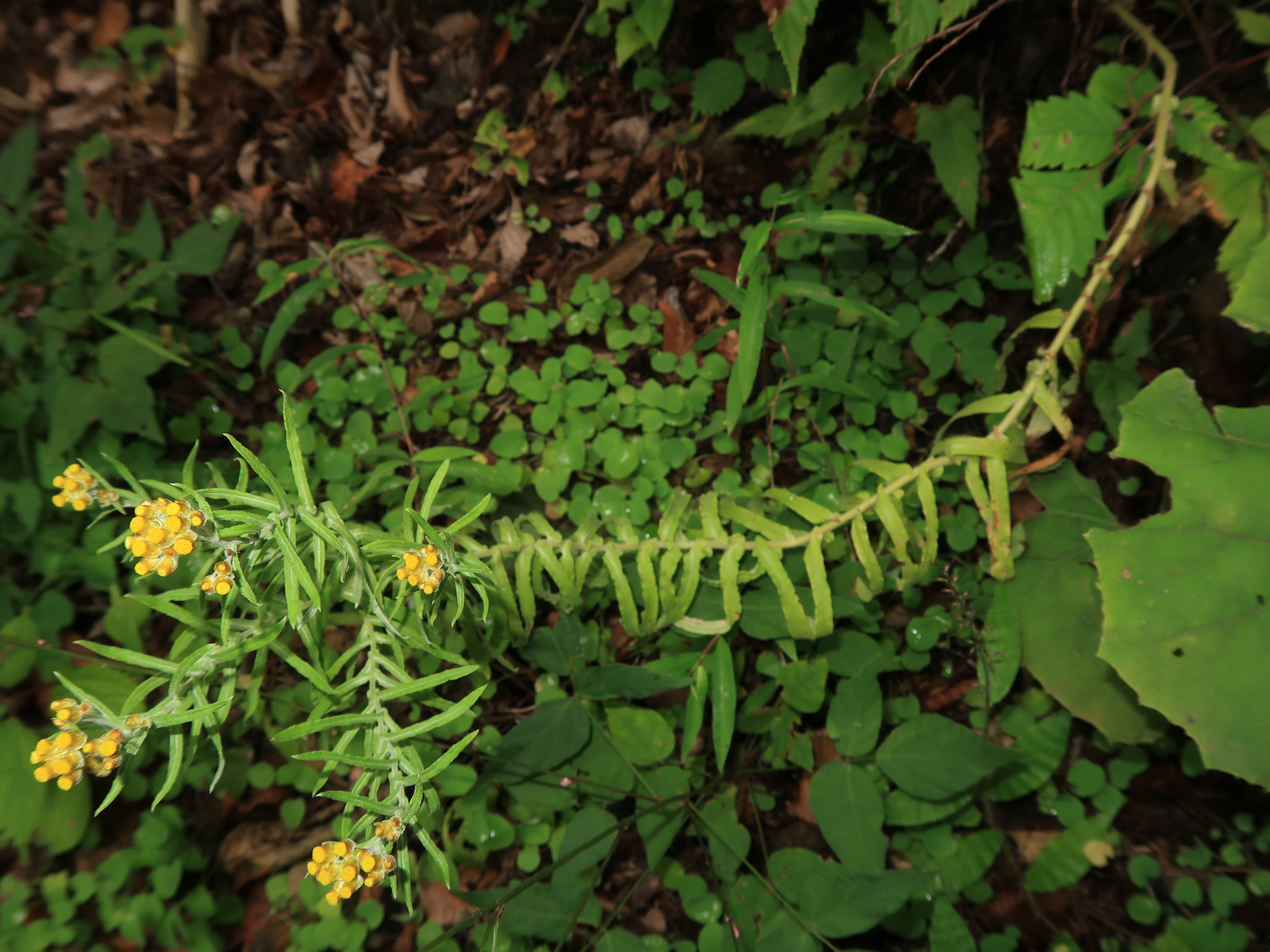 Pseudognaphalium hypoleucum, Hama-dori area, Fukushima pref., Japan